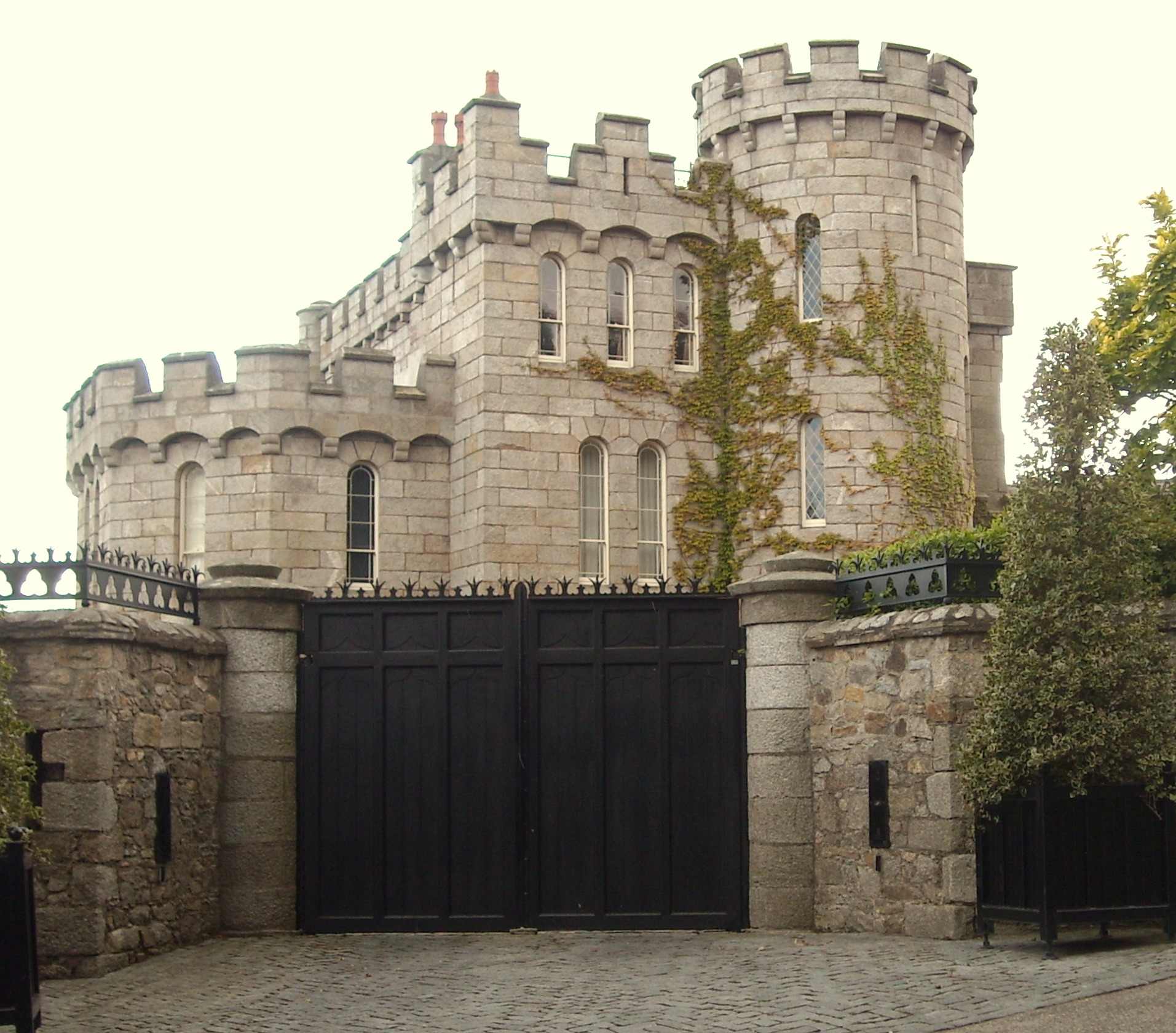 home of Enya